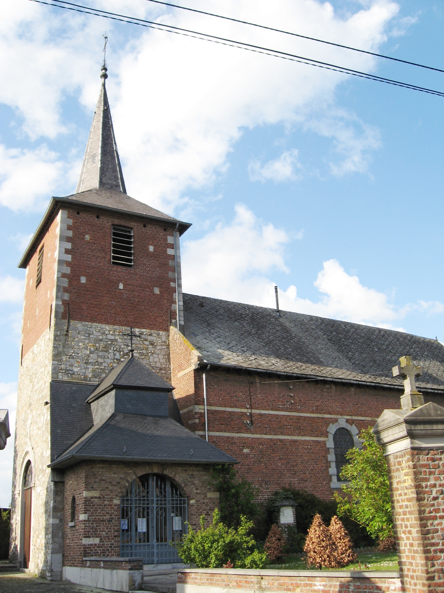 Church of Our Lady in Bergilers, Oreye, Liège, Belgium